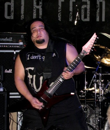 Dino Cazares, Mexican-American heavy metal guitarist